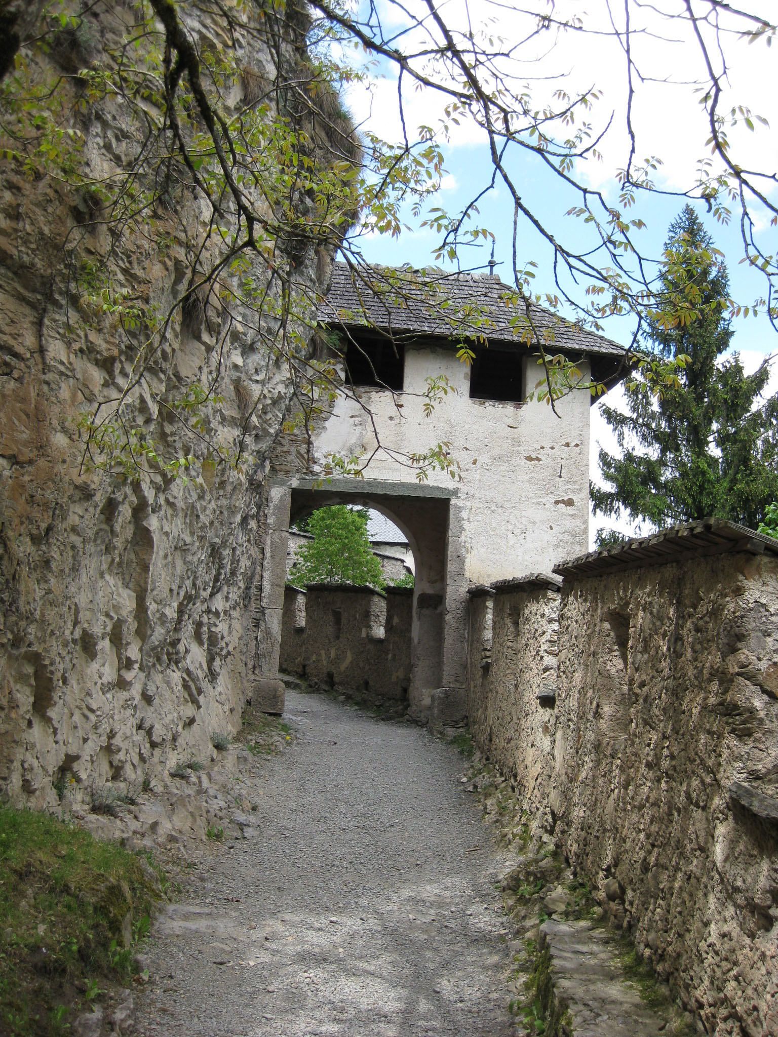 Hochosterwitz castle (slovenian: grad Ostrovica), castle in Carinthia state, Austria 3rd door